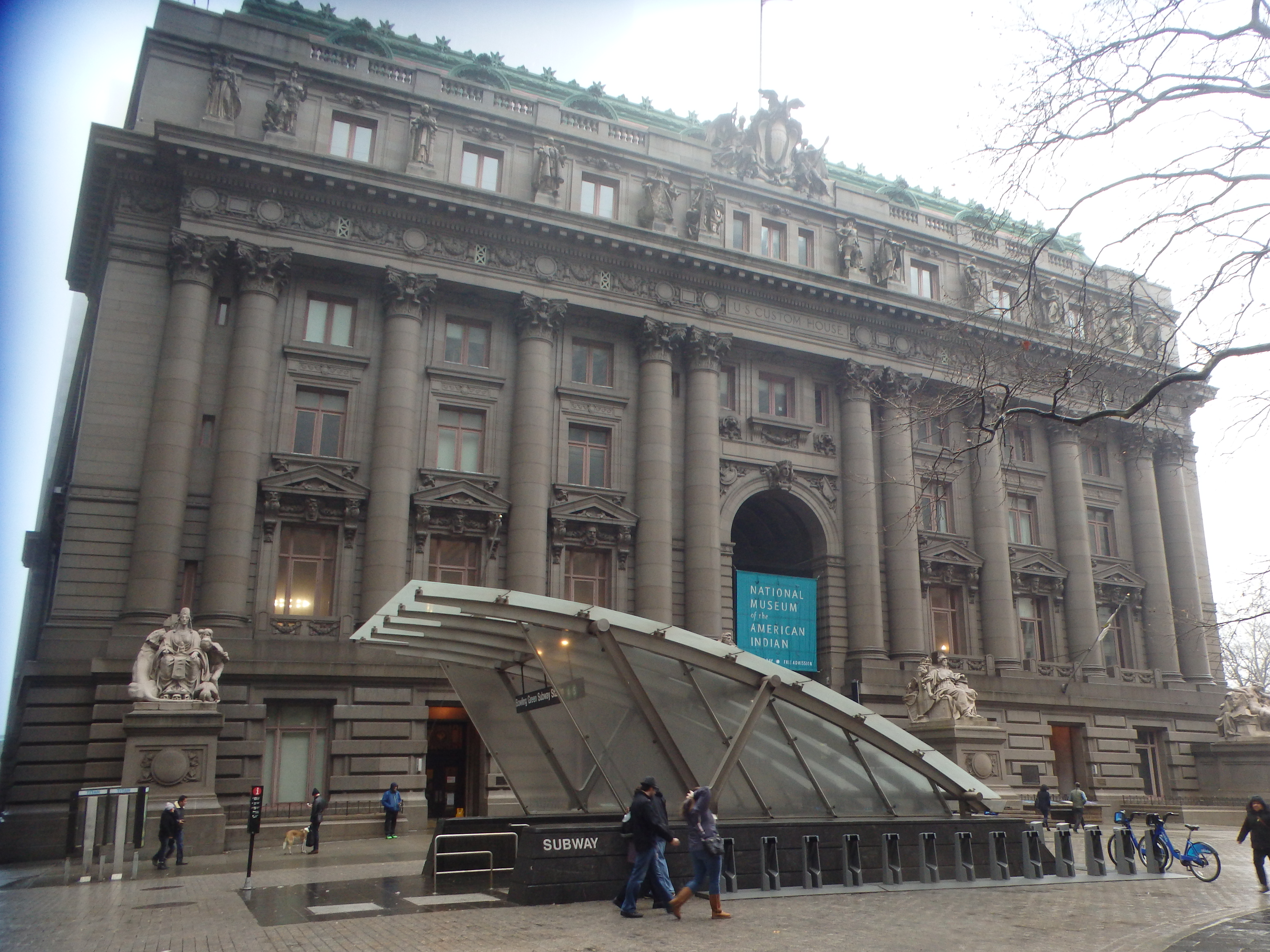 Lower Manhattan at the End Of Broadway